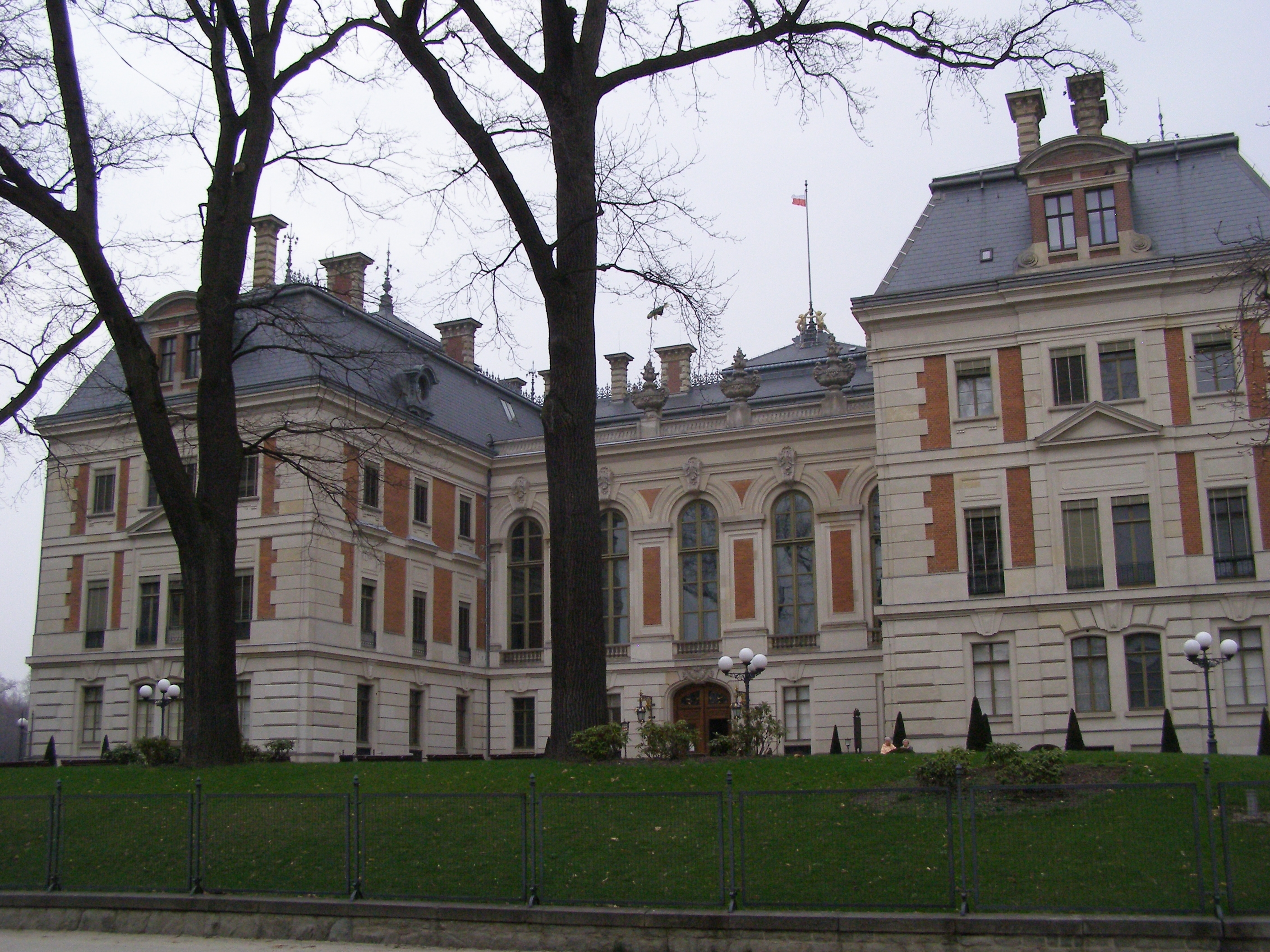 Pszczyna - castle